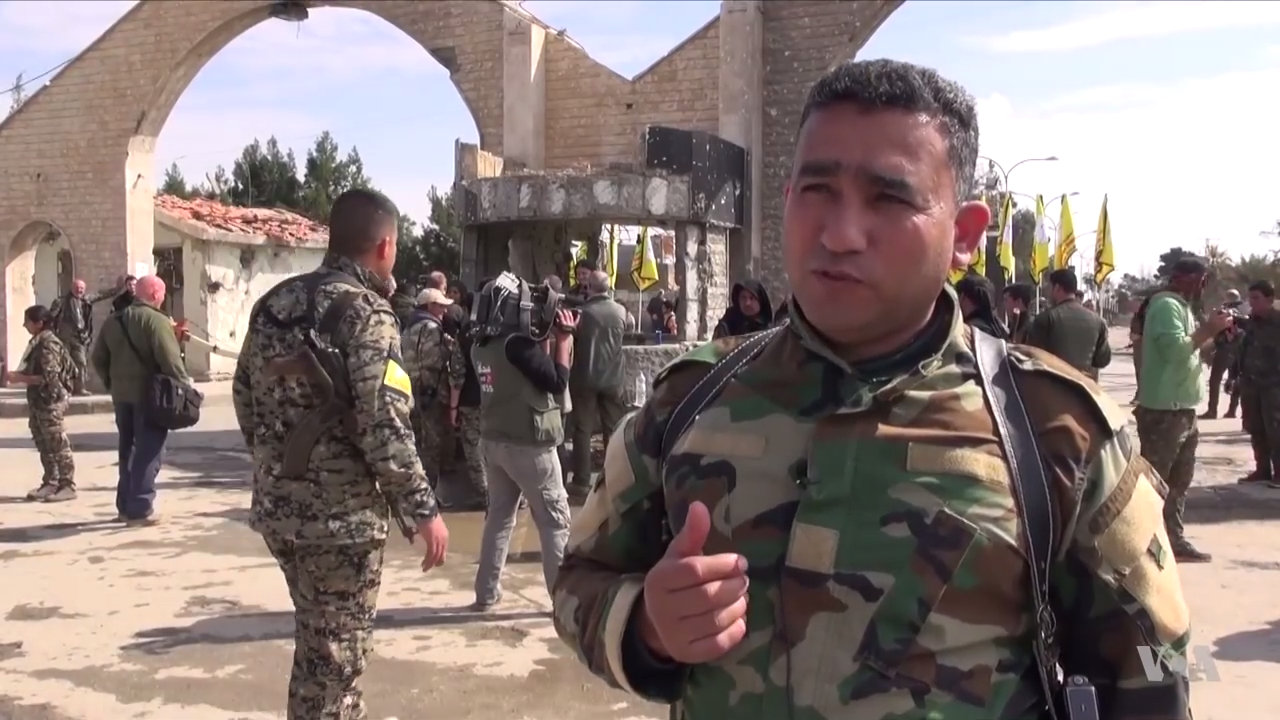 Mohammed Kafr Zita, the commander of the Liberation Brigade, in the town of Shaddadi, northeastern Syria, after the offensive in early 2016.